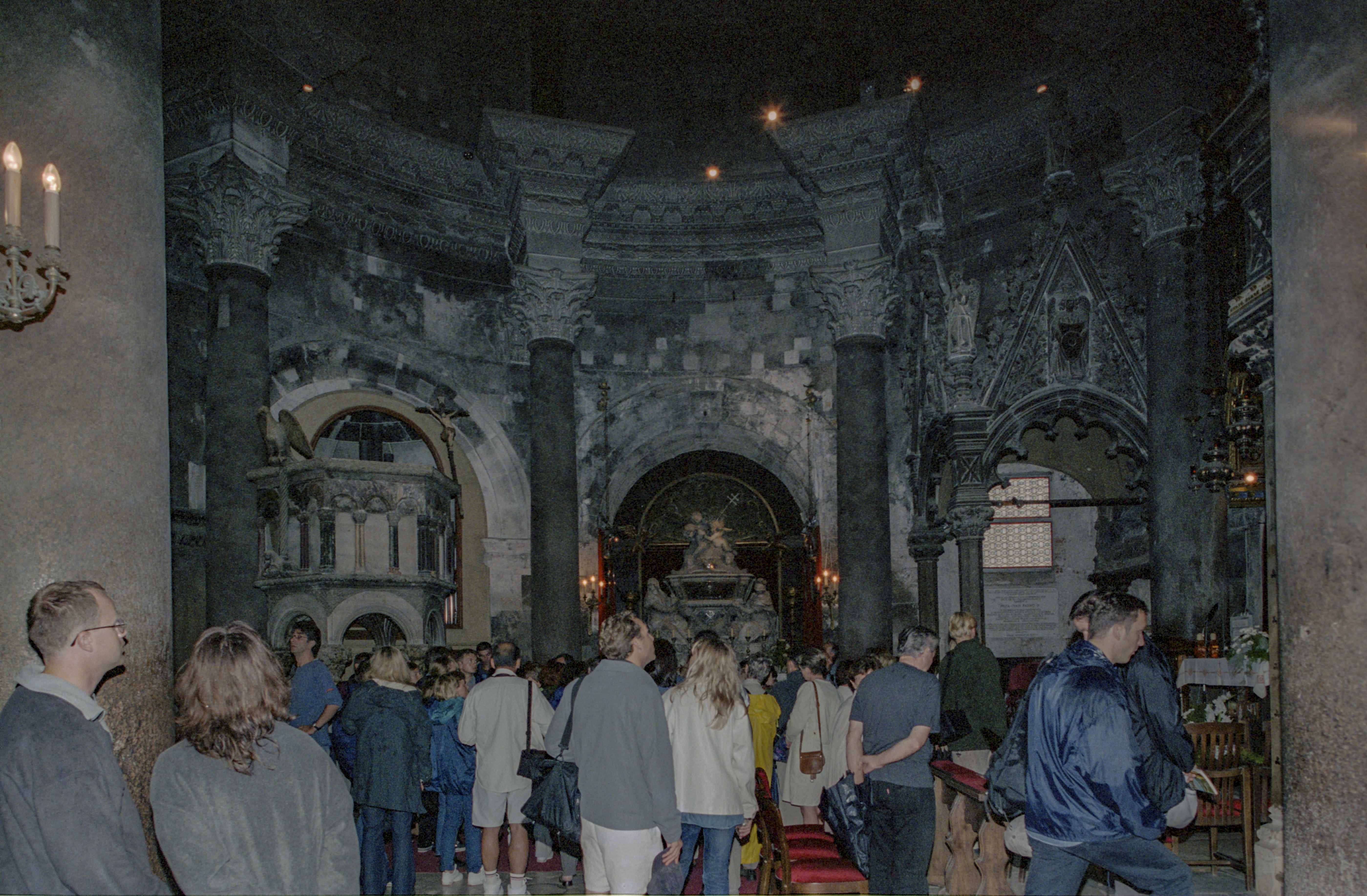 Diocletian's Palace - Diocletian's Mausoleum, Split